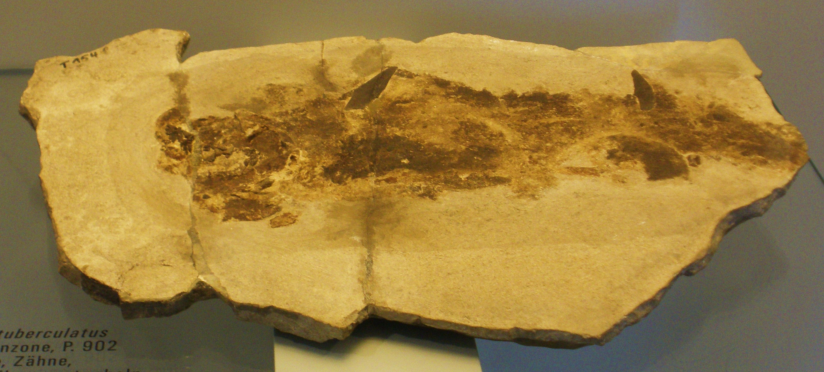 fossil of Acronemus